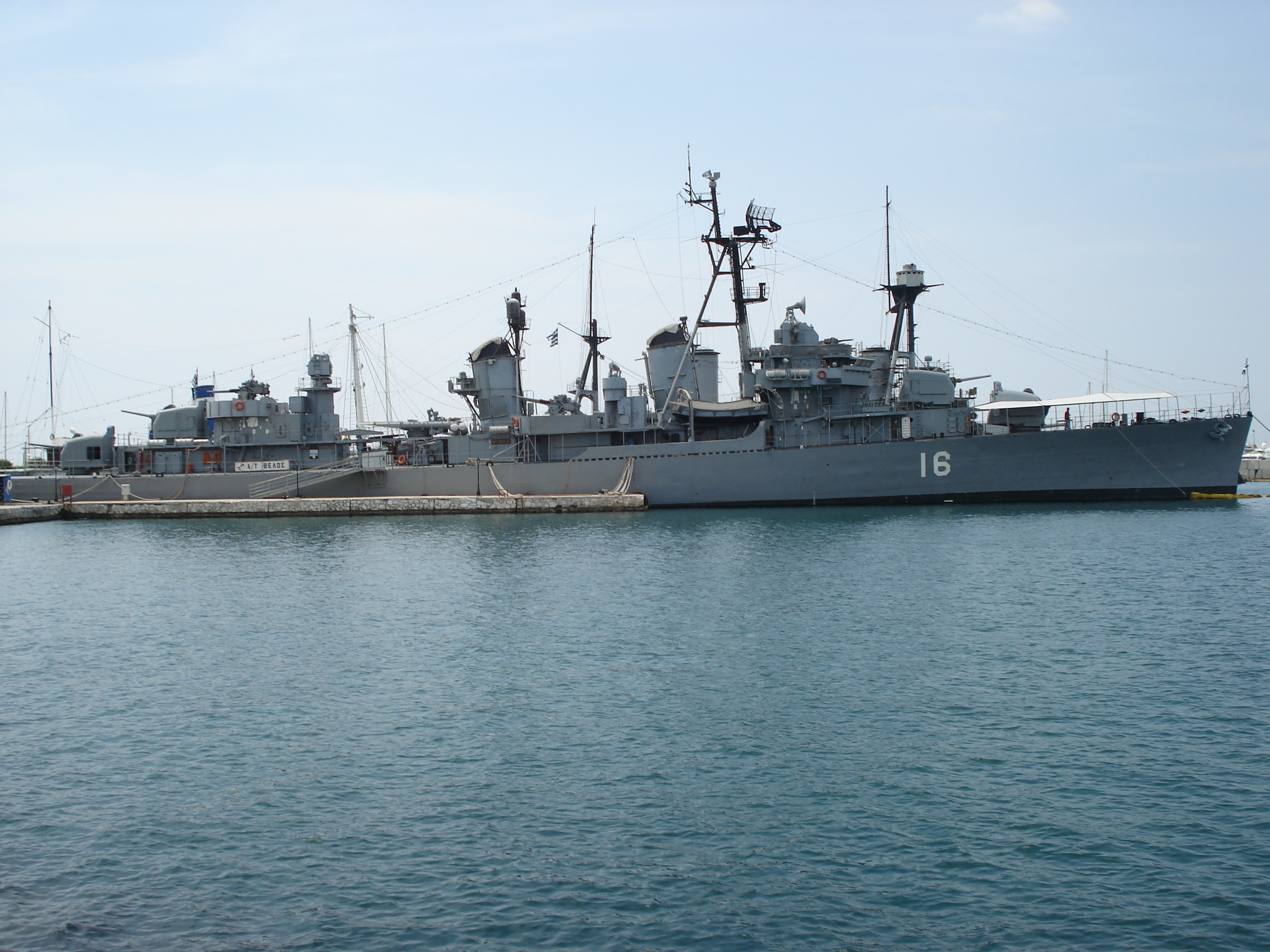 HNS Velos (D-16) former USS Charrette (DD-581) starboard view 27 May 2006.